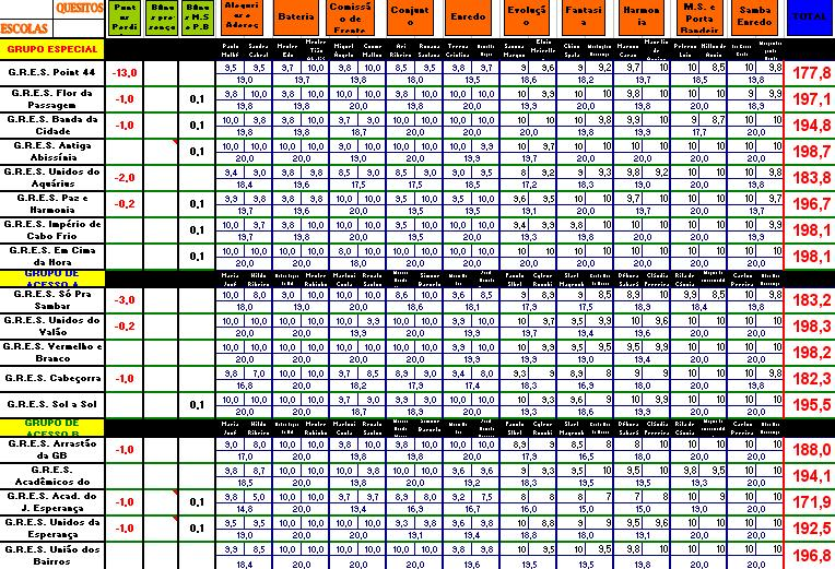 Resultado carnaval 2008 - Cabo Frio